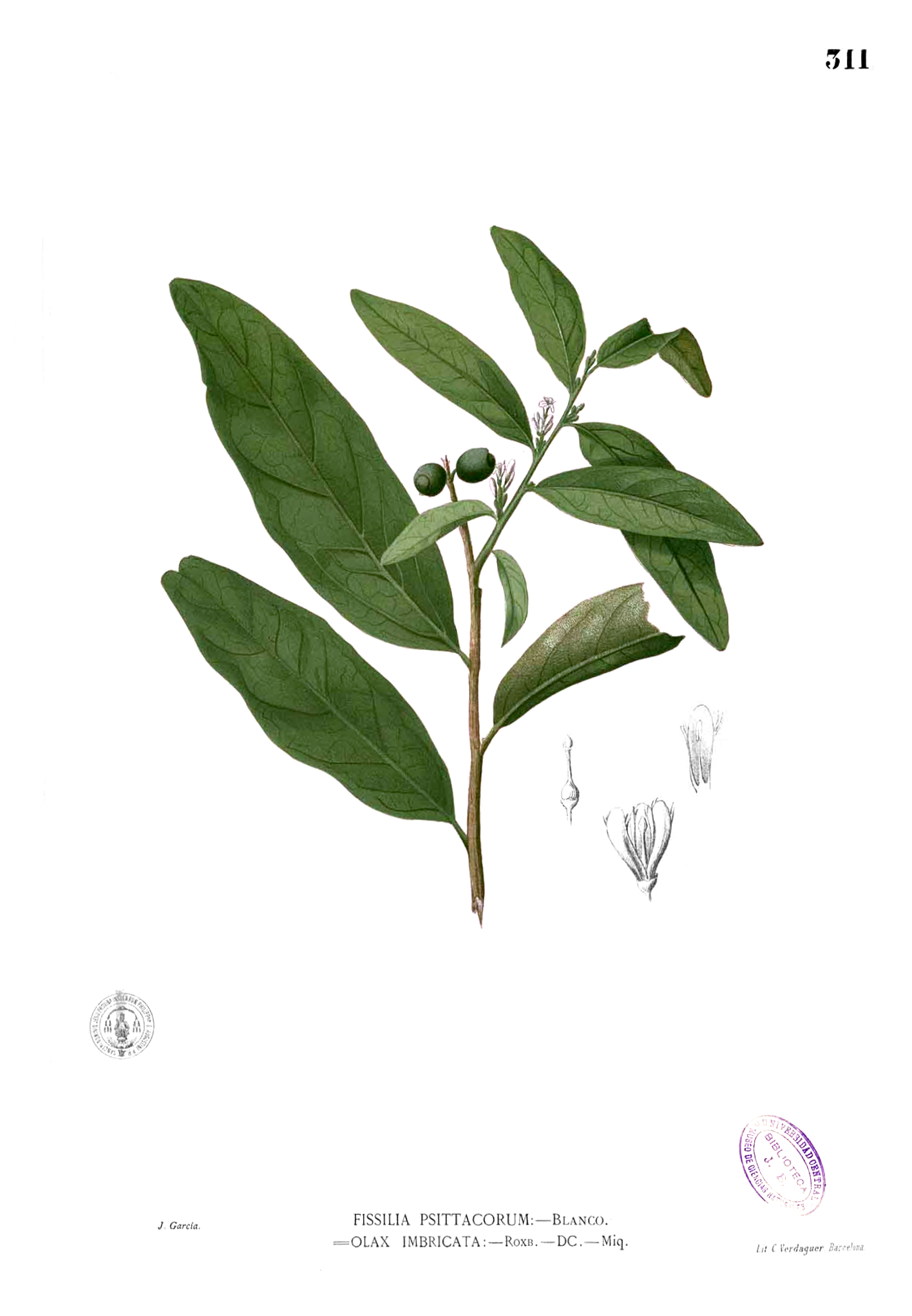 Olax imbricata Plate from book